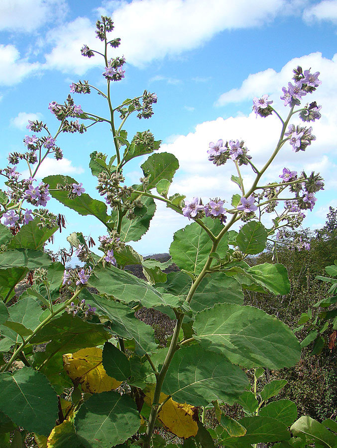 A large weed near San Isidro, Nicaragua. Some consider this a variety of W. urens. In context at